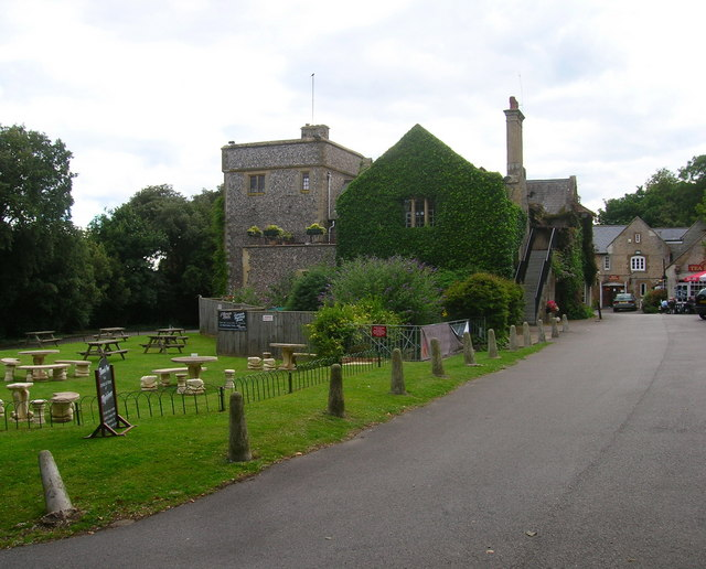 Highdown Towers Built in 1820 and the home of Frederick and Lady Stern who laid out Highdown Gardens in a disused chalk pit next door. The building and gardens passed to Worthing Borough Council in 1967 and the former is now a hotel and popular wedding venue.